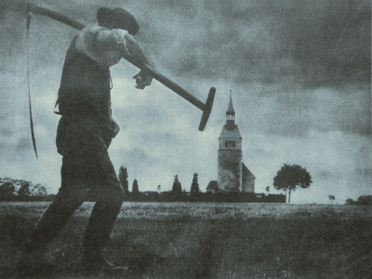 "The reaper", photographed by Nicola Perscheid, 1901; Remark: Original blue tone suffered by reproduction